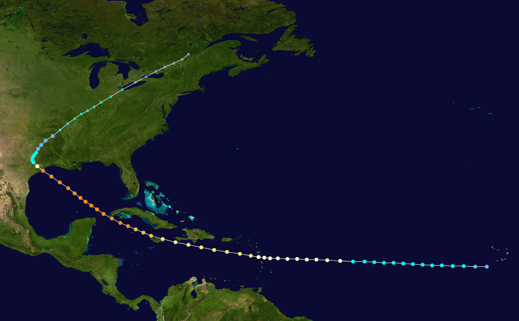 1915 Galveston hurricane track. Uses the color scheme from the Saffir-Simpson Hurricane Scale.